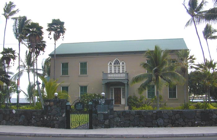 Hulihe'e Palace, Kailua-Kona, Hawai'i photographed June 16, 2004 by Eric Guinther (Marshman).